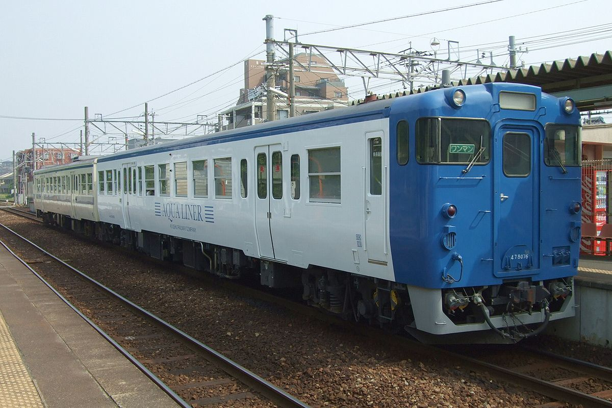 JR Kyushu Type:DMU type kiha47. Code:キハ47 8076 (Front) Location:At Wajiro Station on JR Kashii Line, in Fukuoka City.